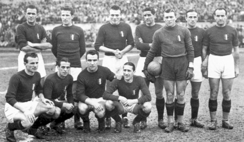 A line-up of Grande Torino in the 1945–46 season.